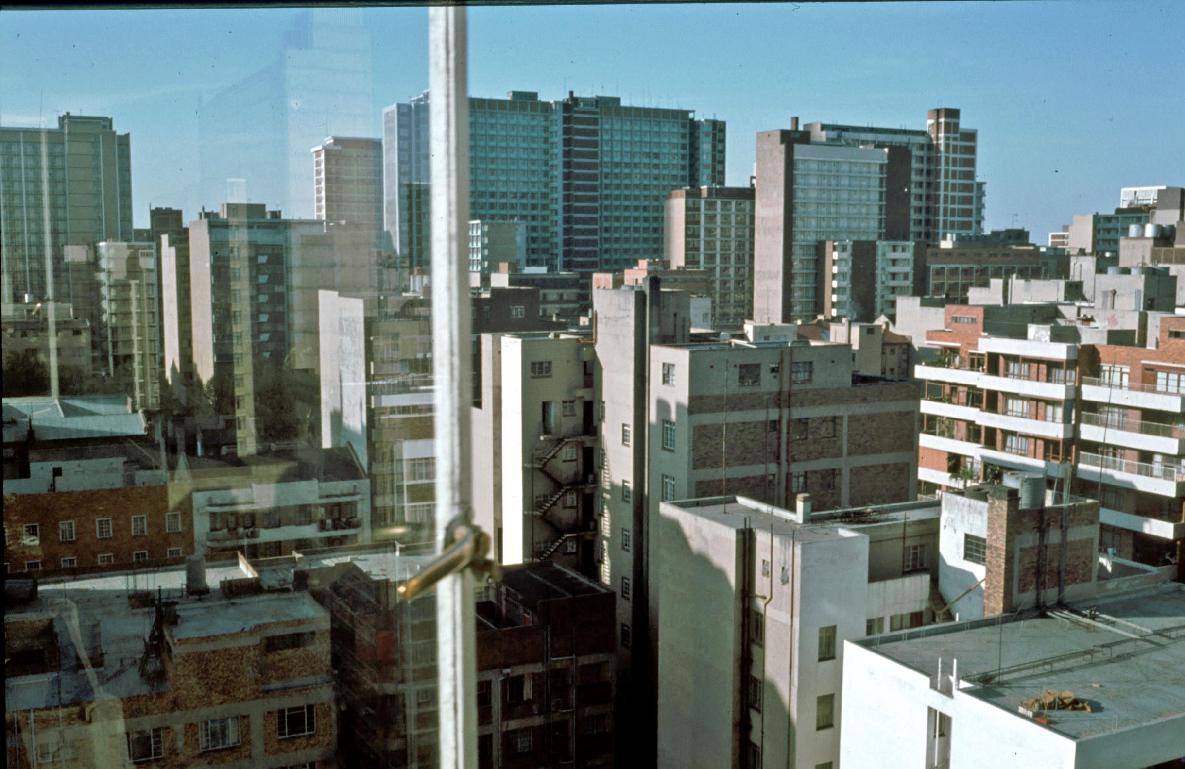 View from Federated Place, Hillbrow, Johannesburg (1980)